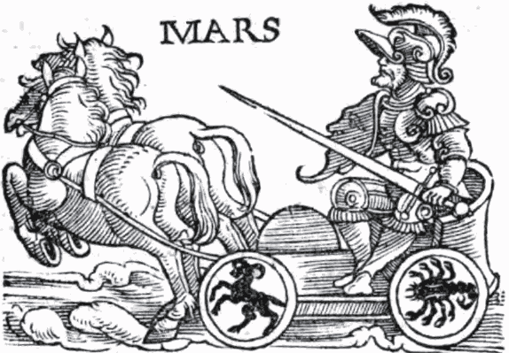 Mars, from Guido Bonatti Liber Astronomiae